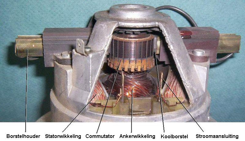 Universalmotor